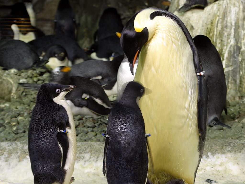 Aptenodytes forsteri, Pygoscelis adeliae